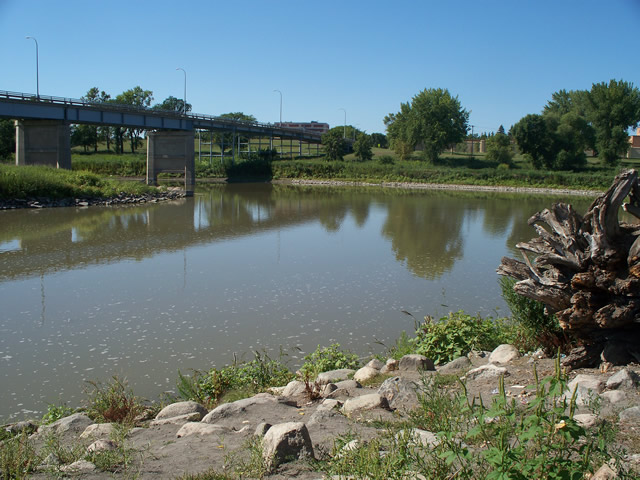 The confluence of the Red River and Red Lake River at East Grand Forks, Minnesota.